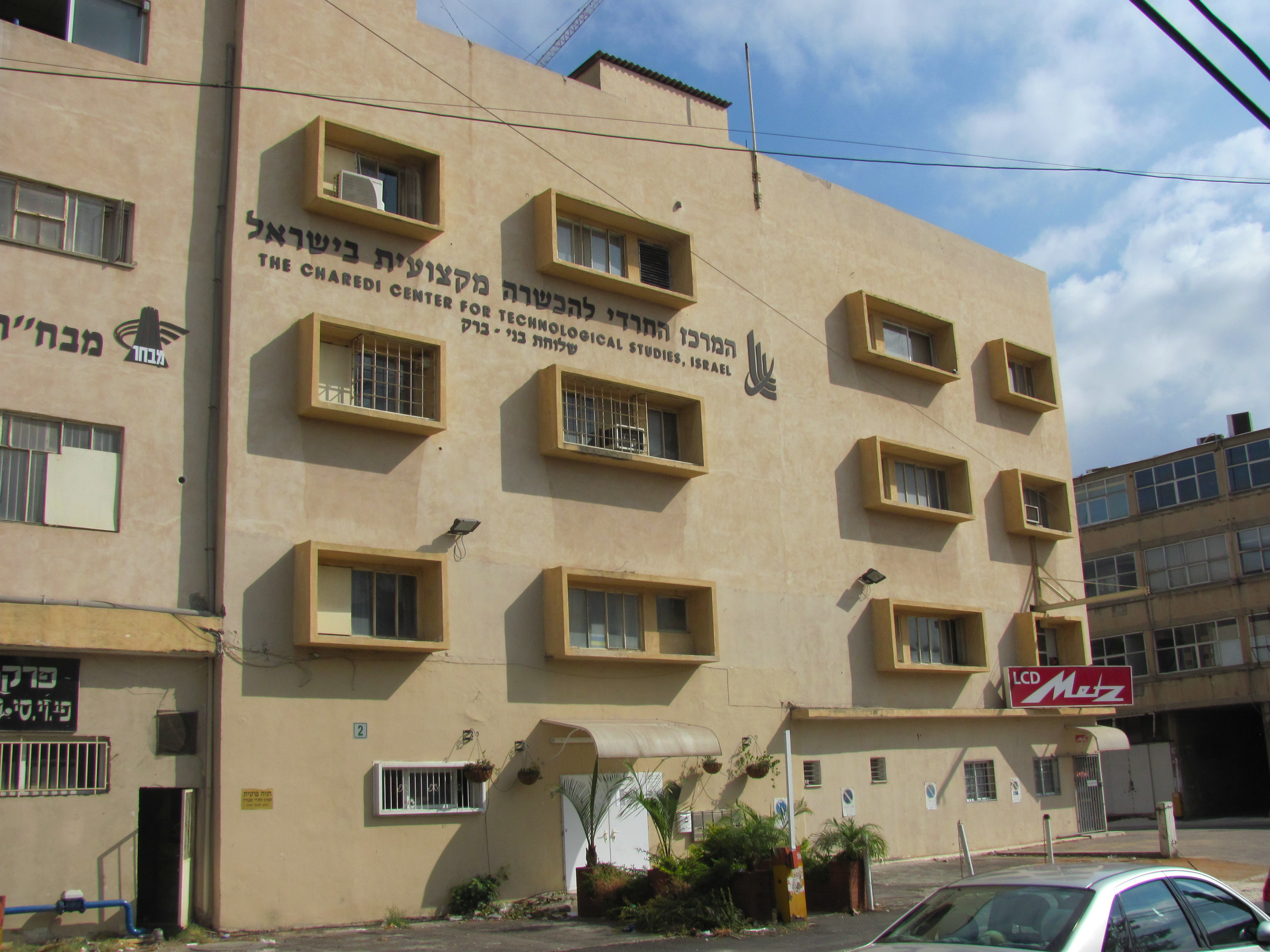 The Haredi Centre for Technological Studies in Israel, Bney Brak branch.